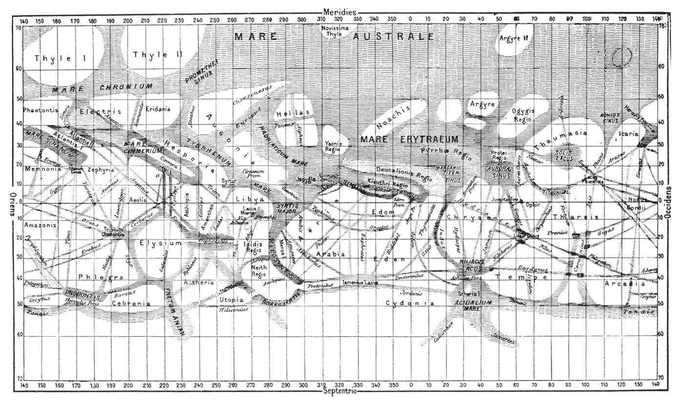 The caption from the source reads, "Giovanni Schiaparelli's map of Mars, compiled over the period 1877-1886, used names based on classical geography or were simply descriptive terms; for example, Mare australe (Southern Sea). Most of these place names are still in use today. Flammarion, La Planète Mars."